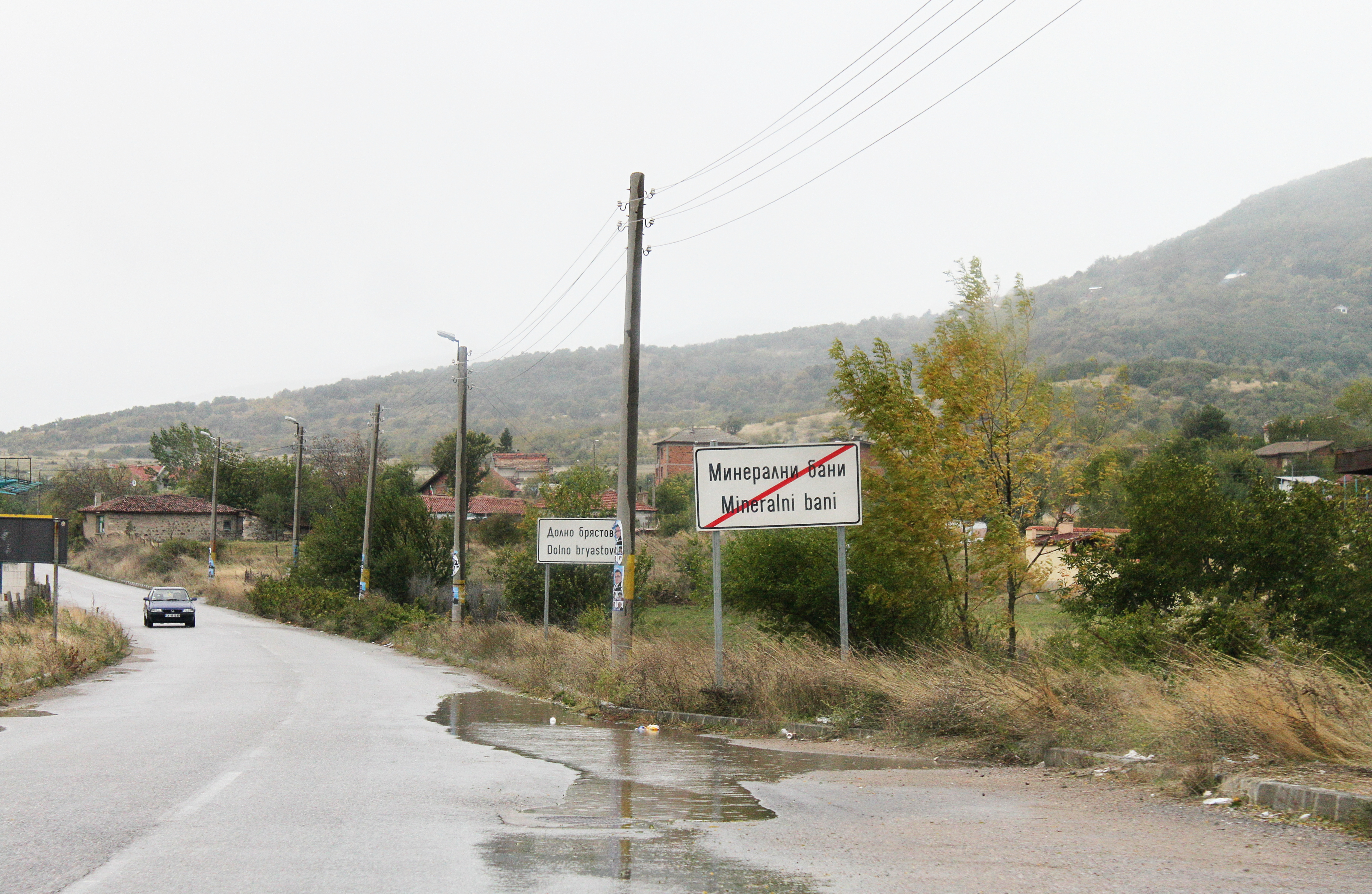 Villages Bryastovo and Mineralni bani, Oblast Haskovo, Bulgaria